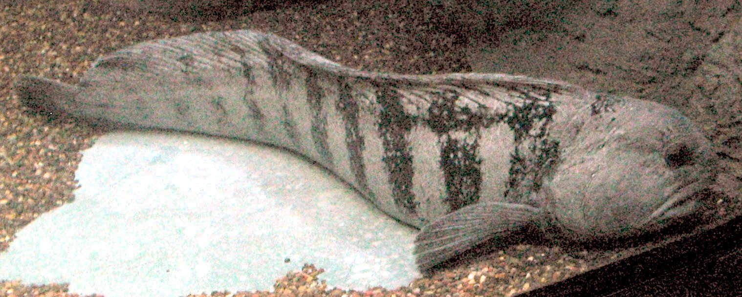 Full-body shot of a Seawolf at the Shedd Aquarium, Chicago.